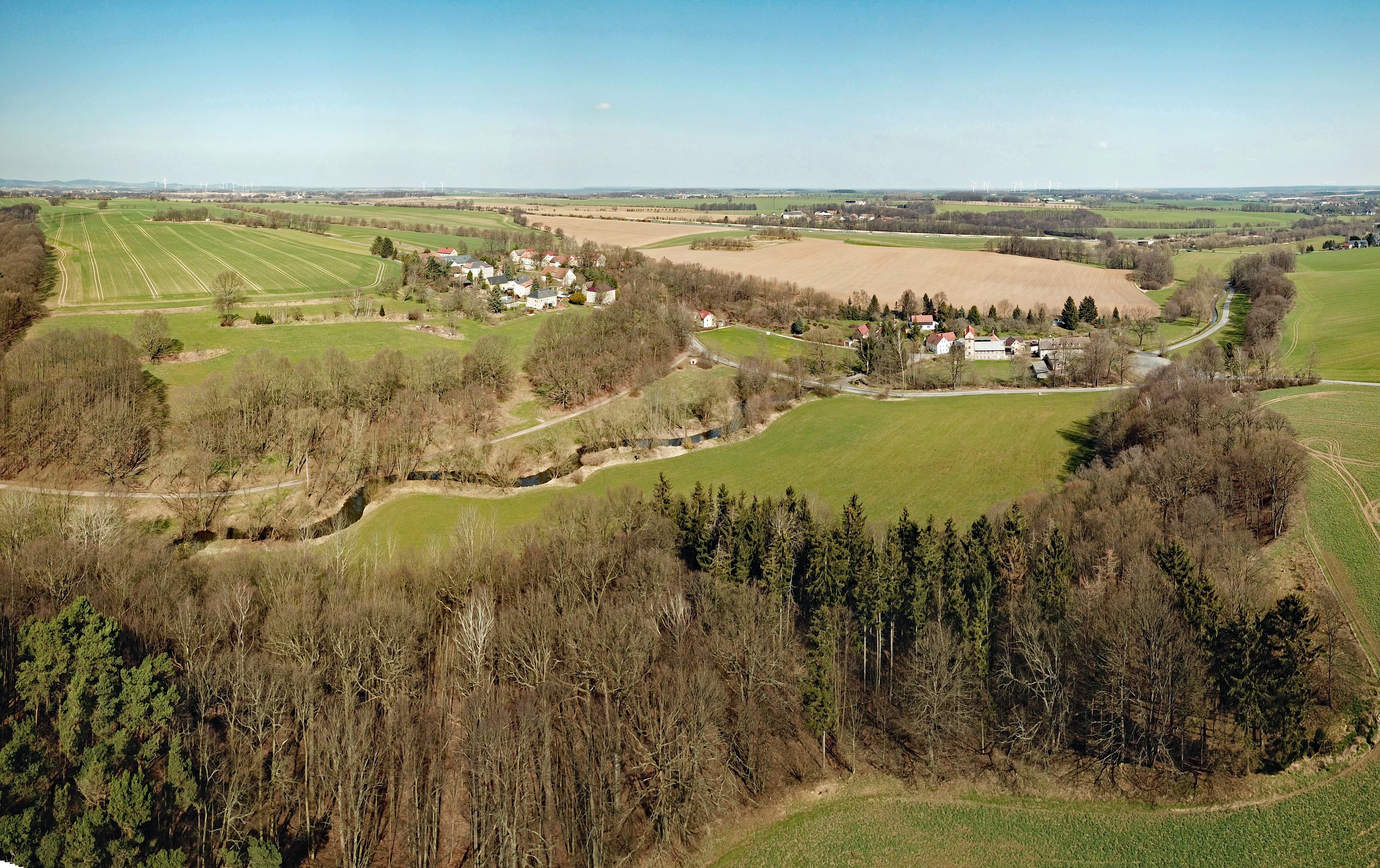 Coblenz (Göda, Saxony, Germany) Hornjoserbsce: Powětrowy wobraz Koblic z dolinu Čornicy